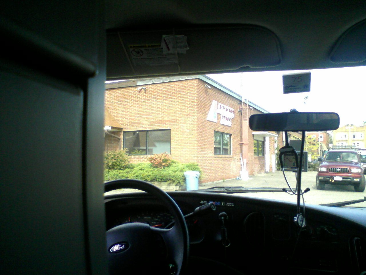 Picture of the headquarters for Alamo EMS located in the City of Poughkeepsie